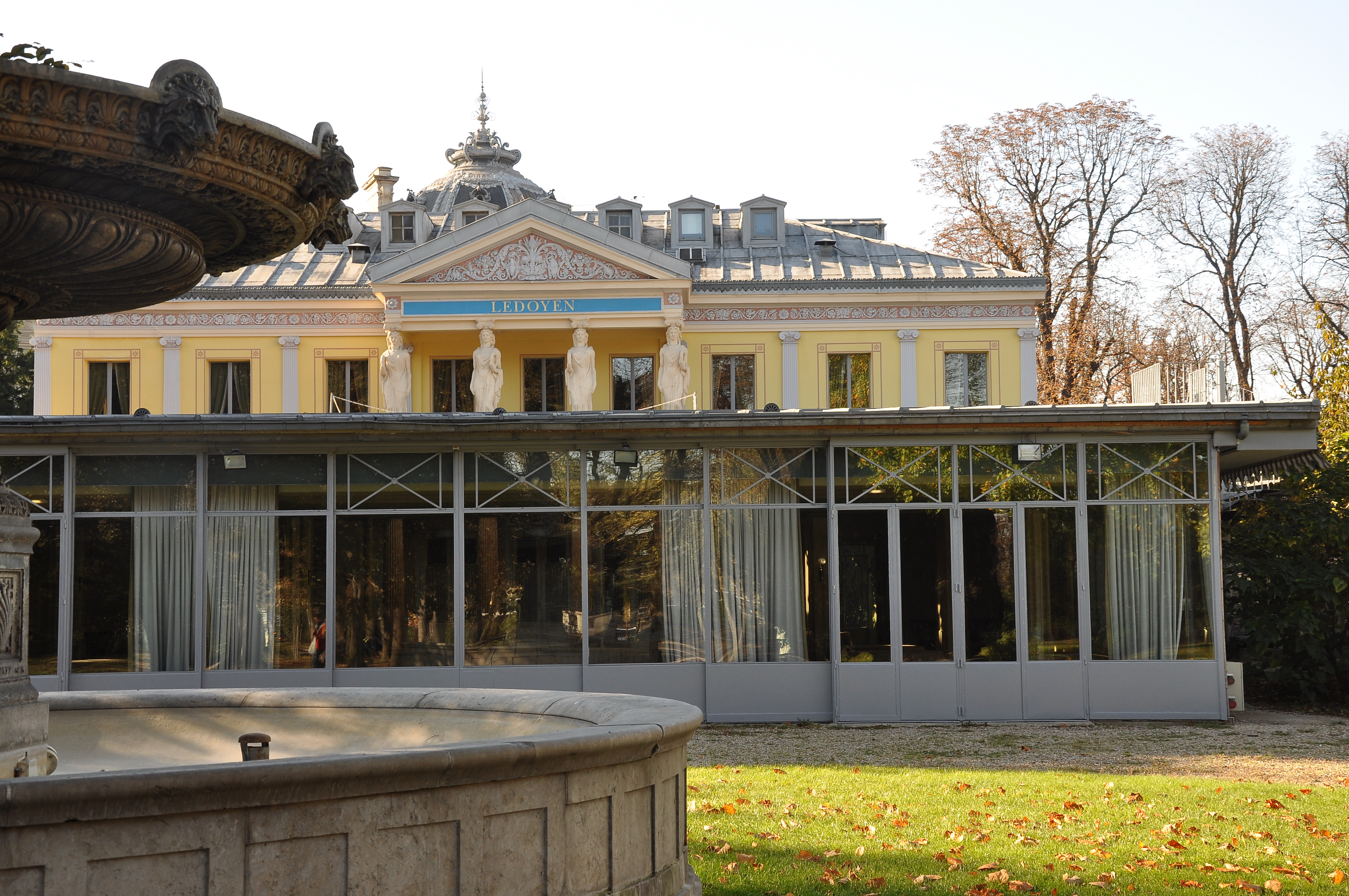 Pavilon of Le Doyen in the Jardins des Champs-Élysées in Paris, 8th district, France. One of the famous restaurant of Paris.